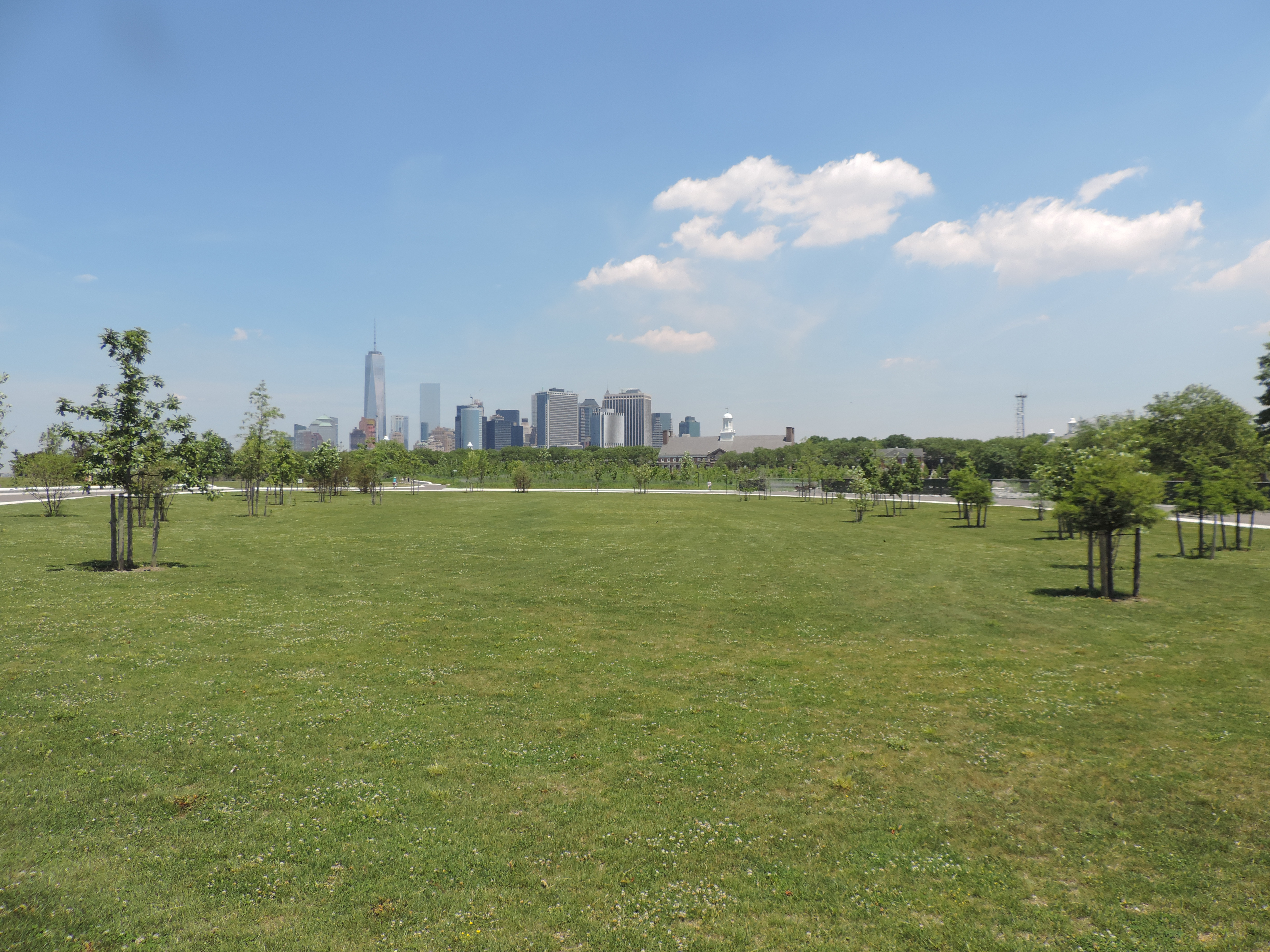 Looking north at The Oval, Liggett Hall, and lower Manhattan on a sunny morning.